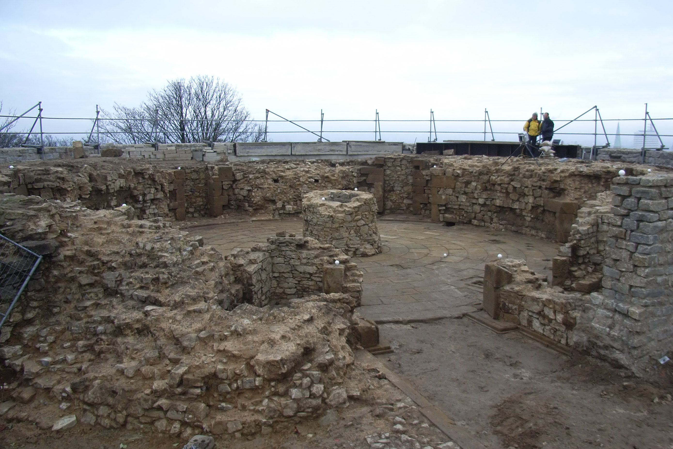 Bielefeld, Germany: Archeological excavation on the Sparrenburg